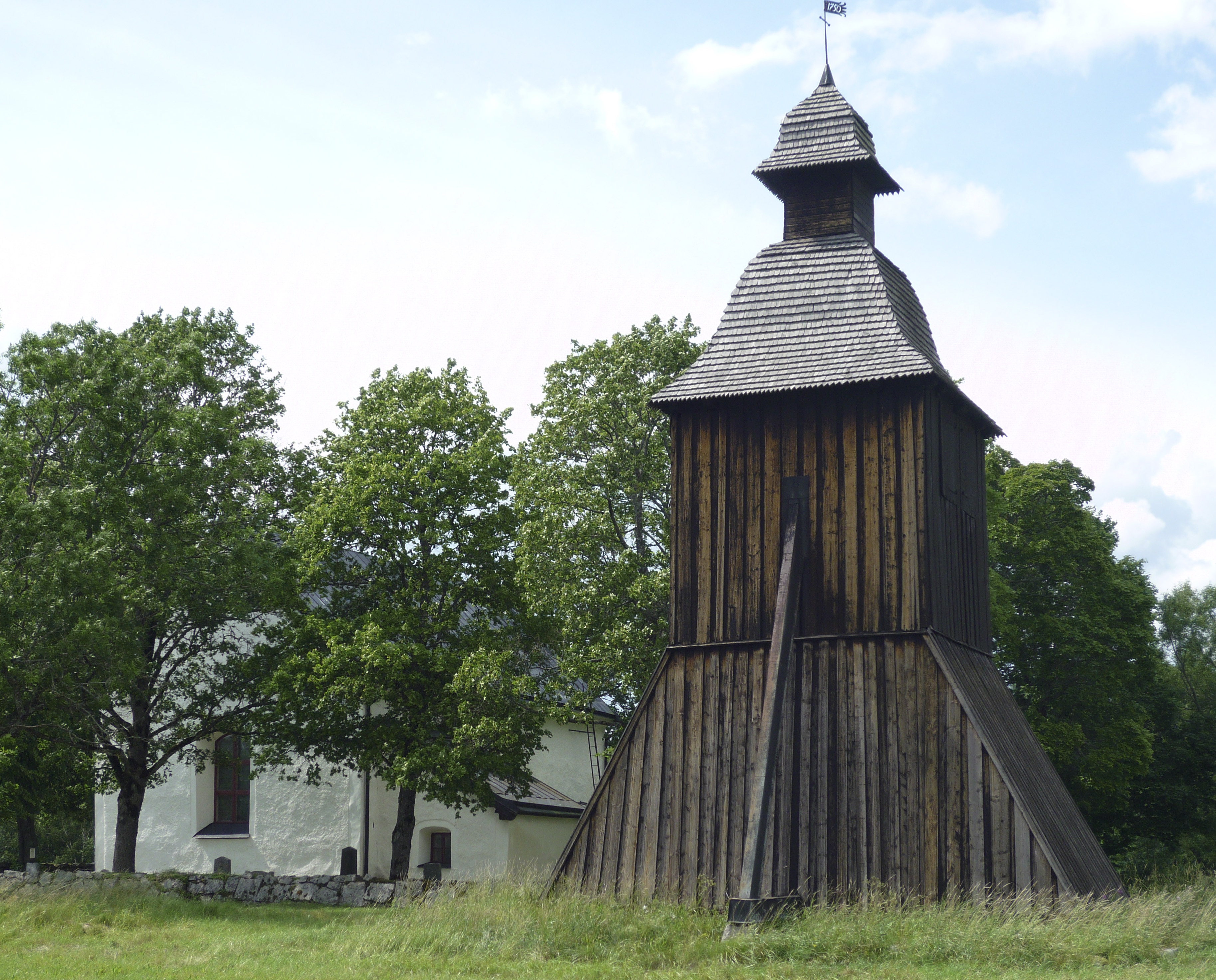 The bell tower by Åland church